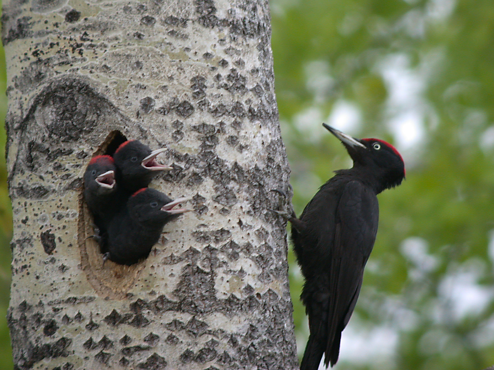 Black Woodpecker Dryocopus martius with young, Oulu, Finland.